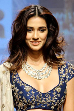 at Lakmee 2017